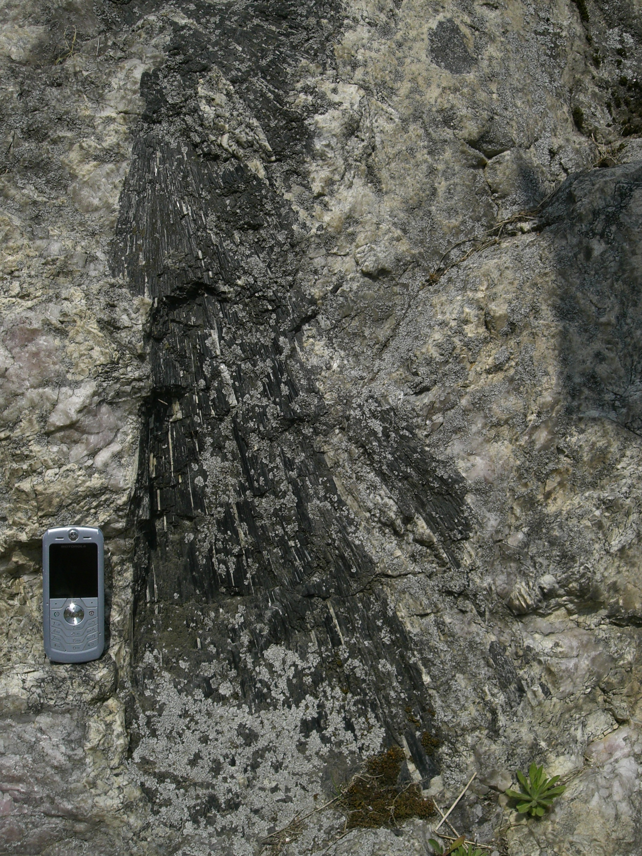 Protected area Myšenecká slunce in Myšenec village, Písek district, Czech Republic. In the location is big crystals of skoryl.